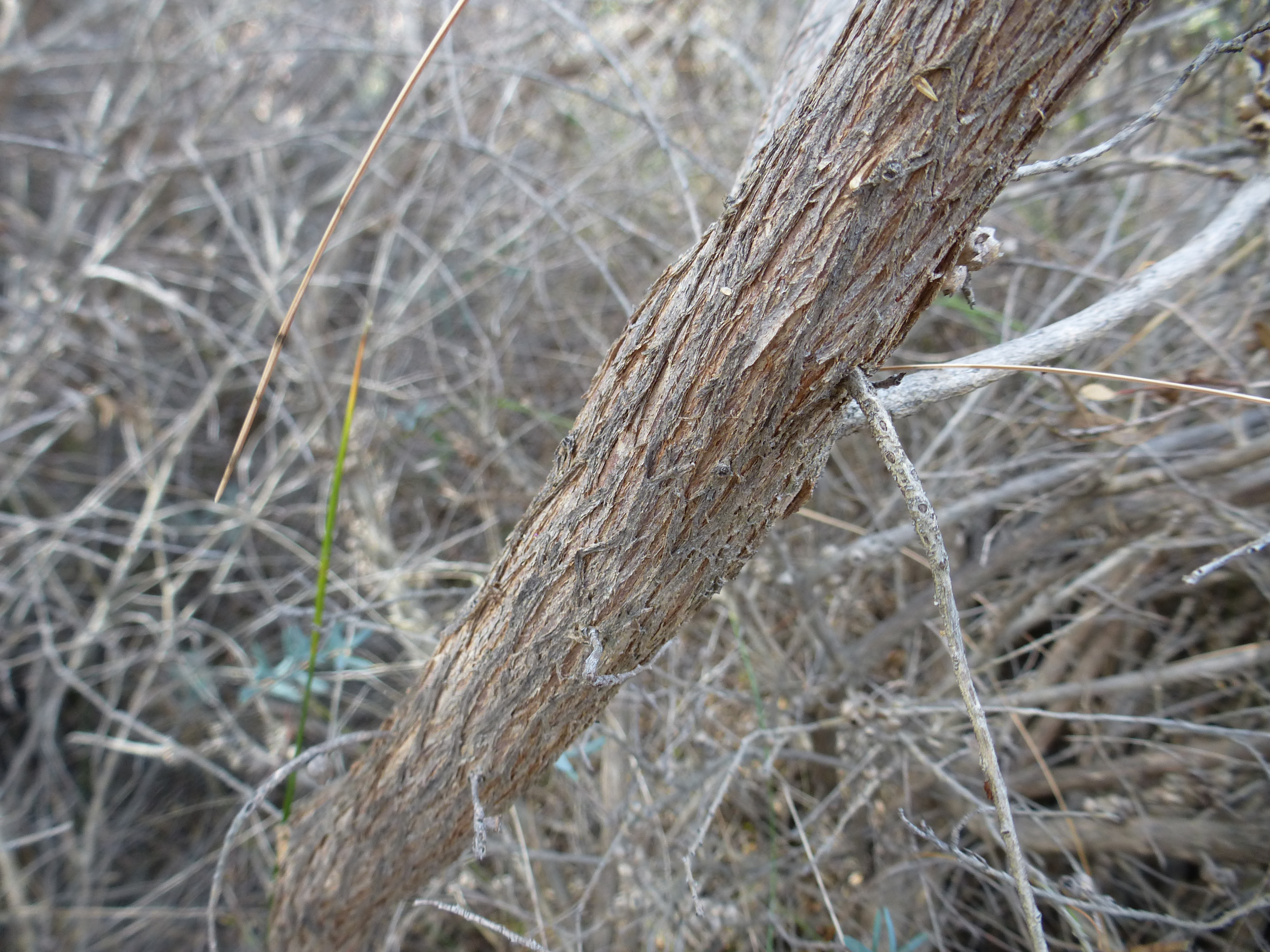 Melaleuca laxiflora growing 13 km N of Corrigin